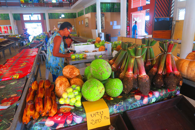 Uturoa has a market that is opened throughout the week, where locals can come and rehydrate with their ice-cold fresh coconut.